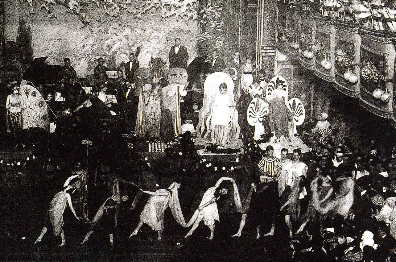 Costume Ball at Webster Hall (date unknown). From the Alexander Alland, Sr., Collection.